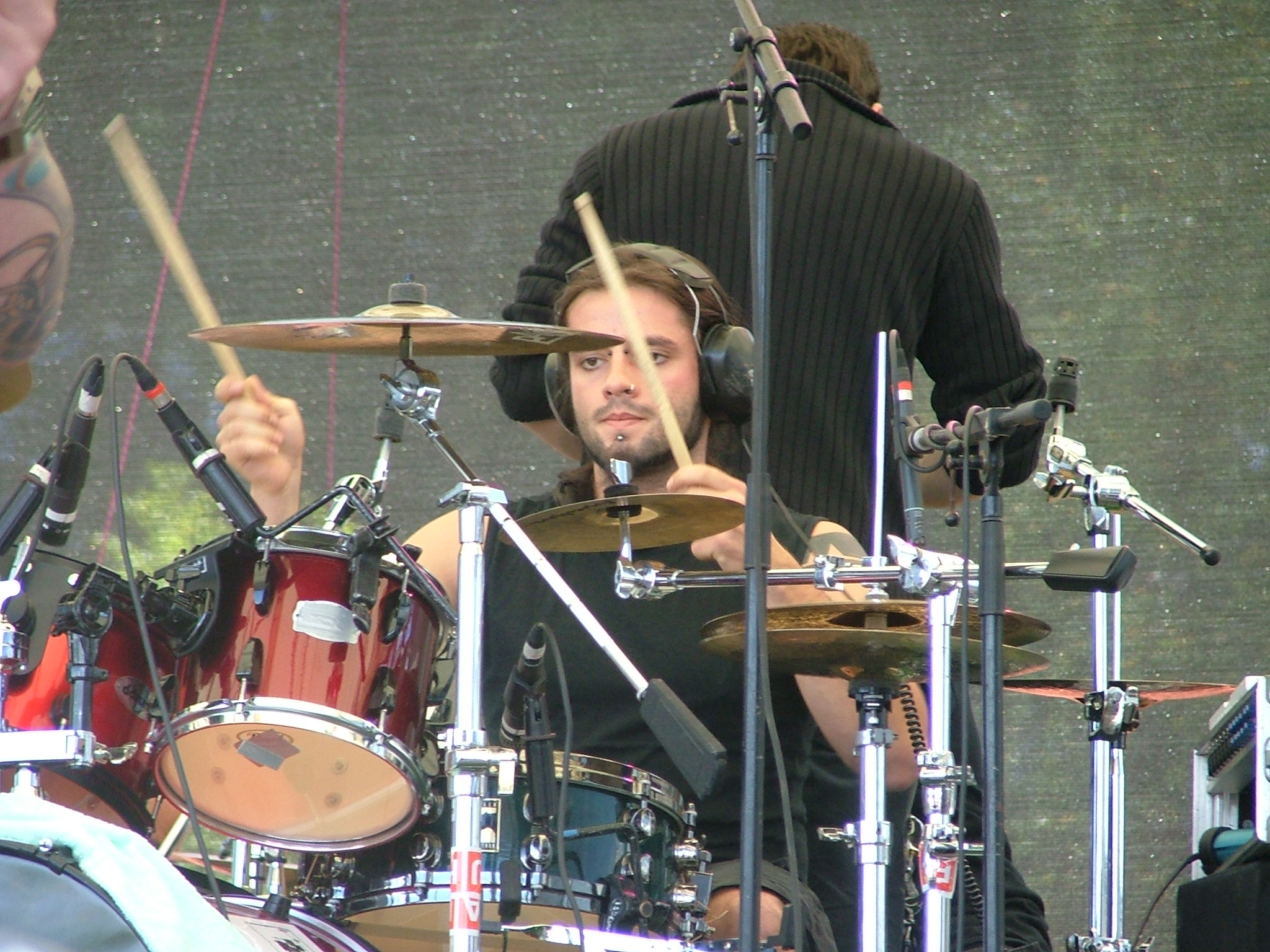 German metalcore band Fear My Thoughts at 'Rock the Lake' in Finkenstein am Faaker See